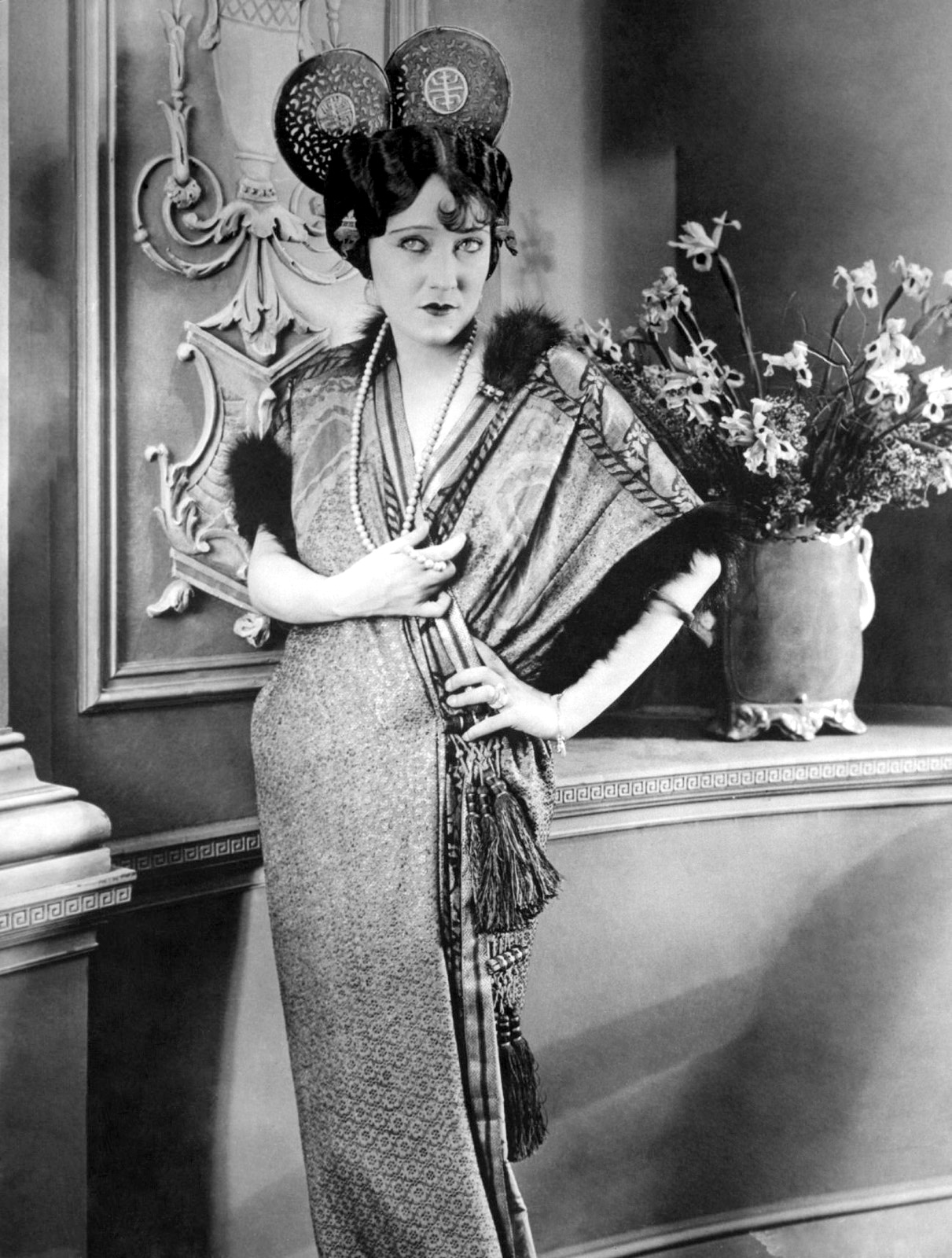 American actress Gloria Swanson in a photo from the American film For Better, for Worse (1919).